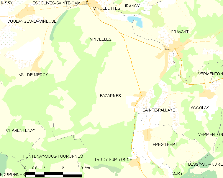 Map of French municipality Bazarnes